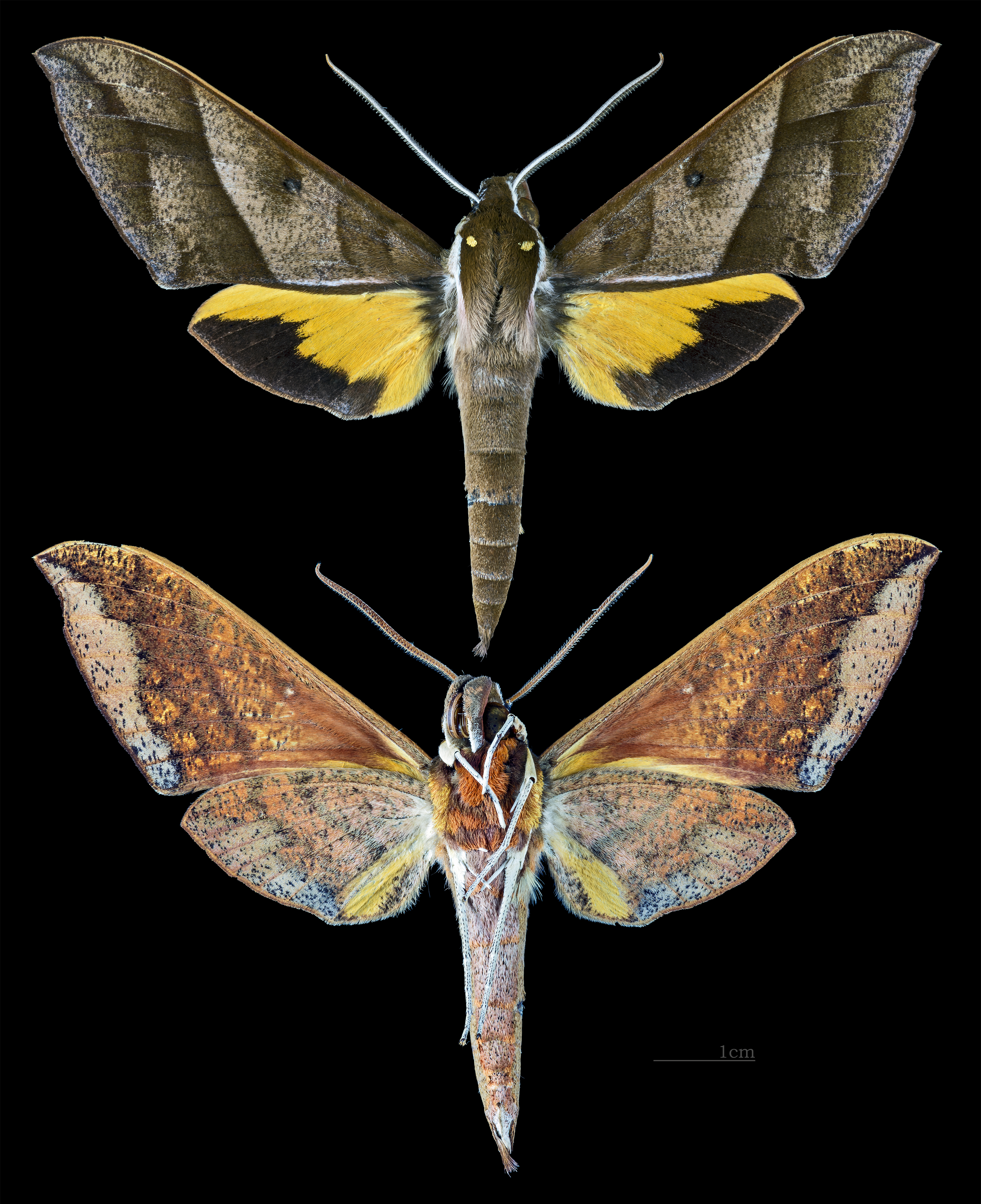 Gnathothlibus meeki - Two views of same specimen Collection of the Mathematician Laurent Schwartz